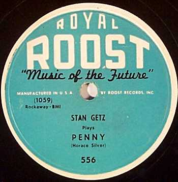 stan getz roost records 78 shellack penny